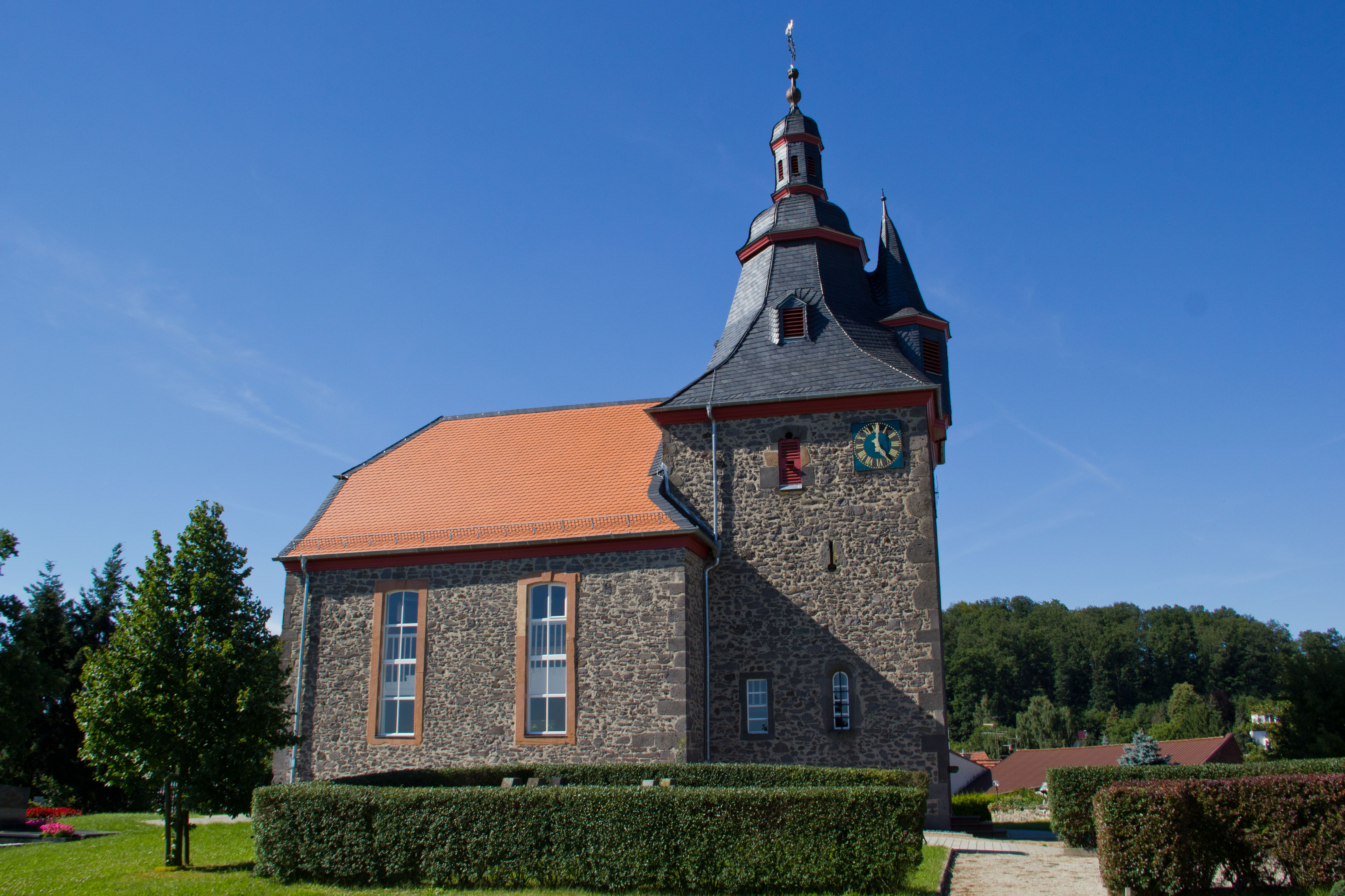 Evangelical Church Nonnenroth. The solid part of the tower dates back to the 13th century, the new church was inaugurate in 1775.